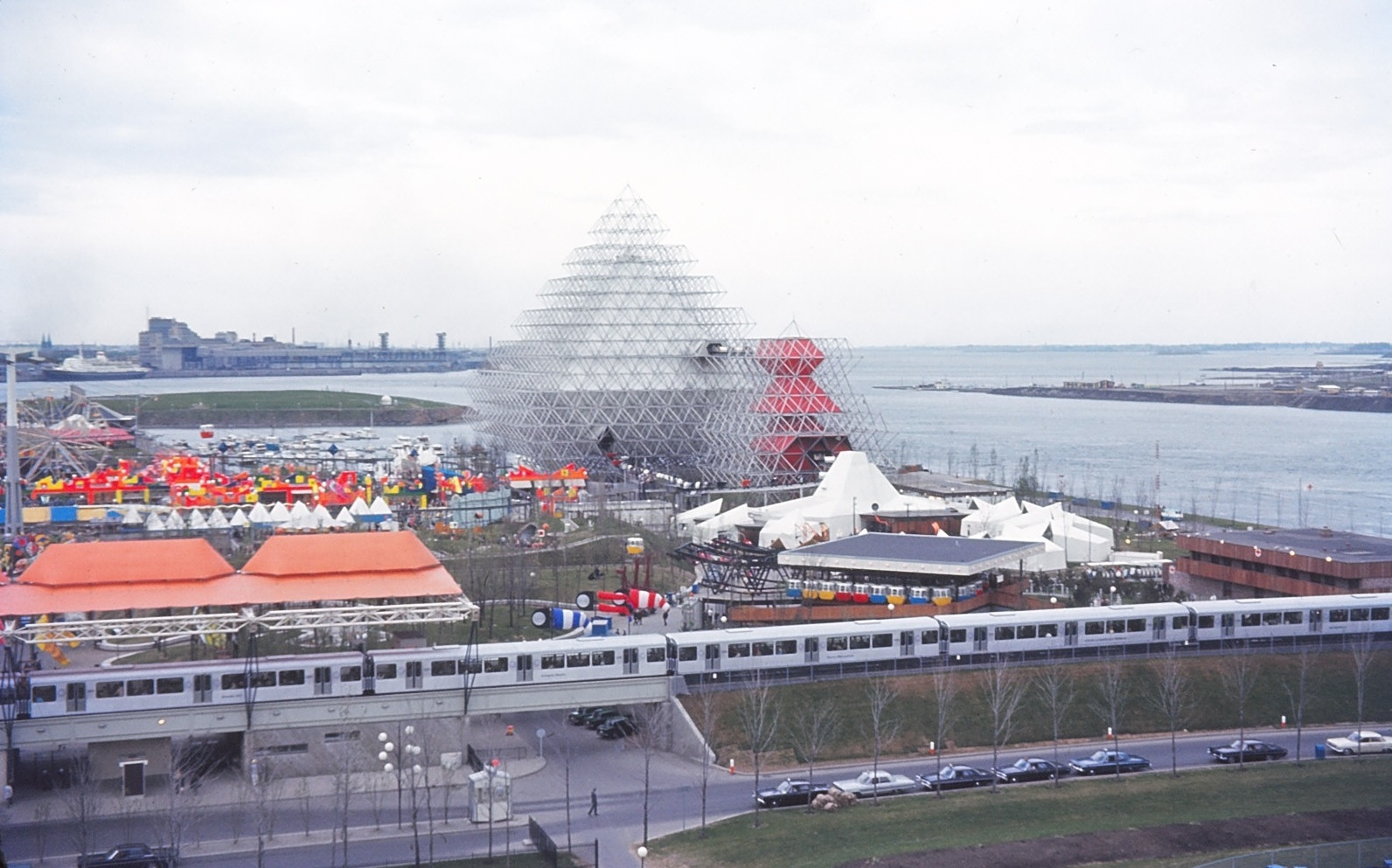 La Ronde, the Expo-Express train, the Gyrotron. Expo 67, Montreal, Quebec, Canada, may 1967.